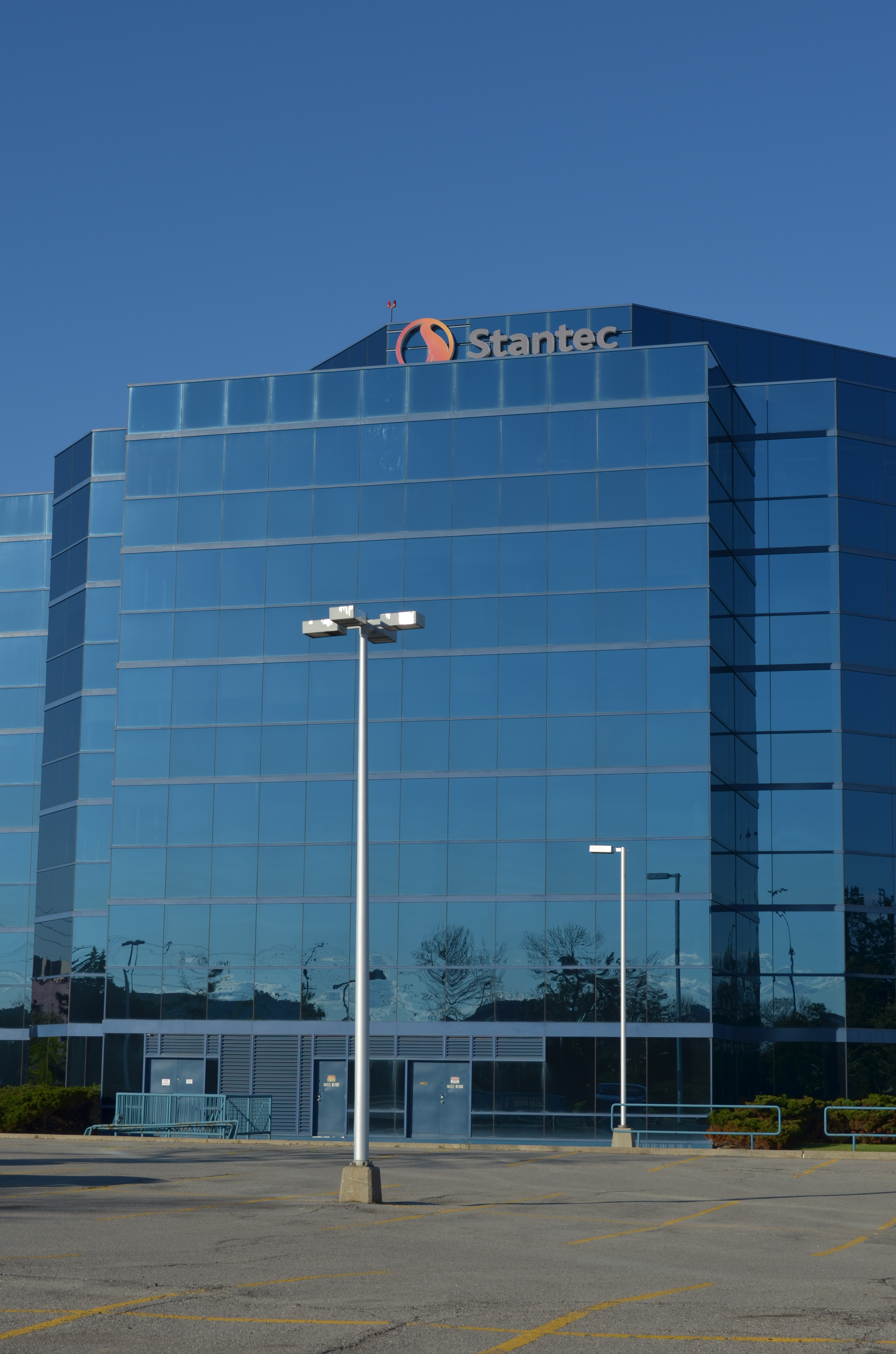 Markham, Ontario Office - Stantec